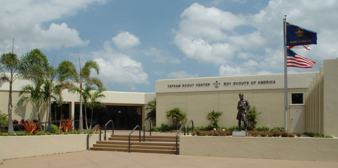 South Florida Council office